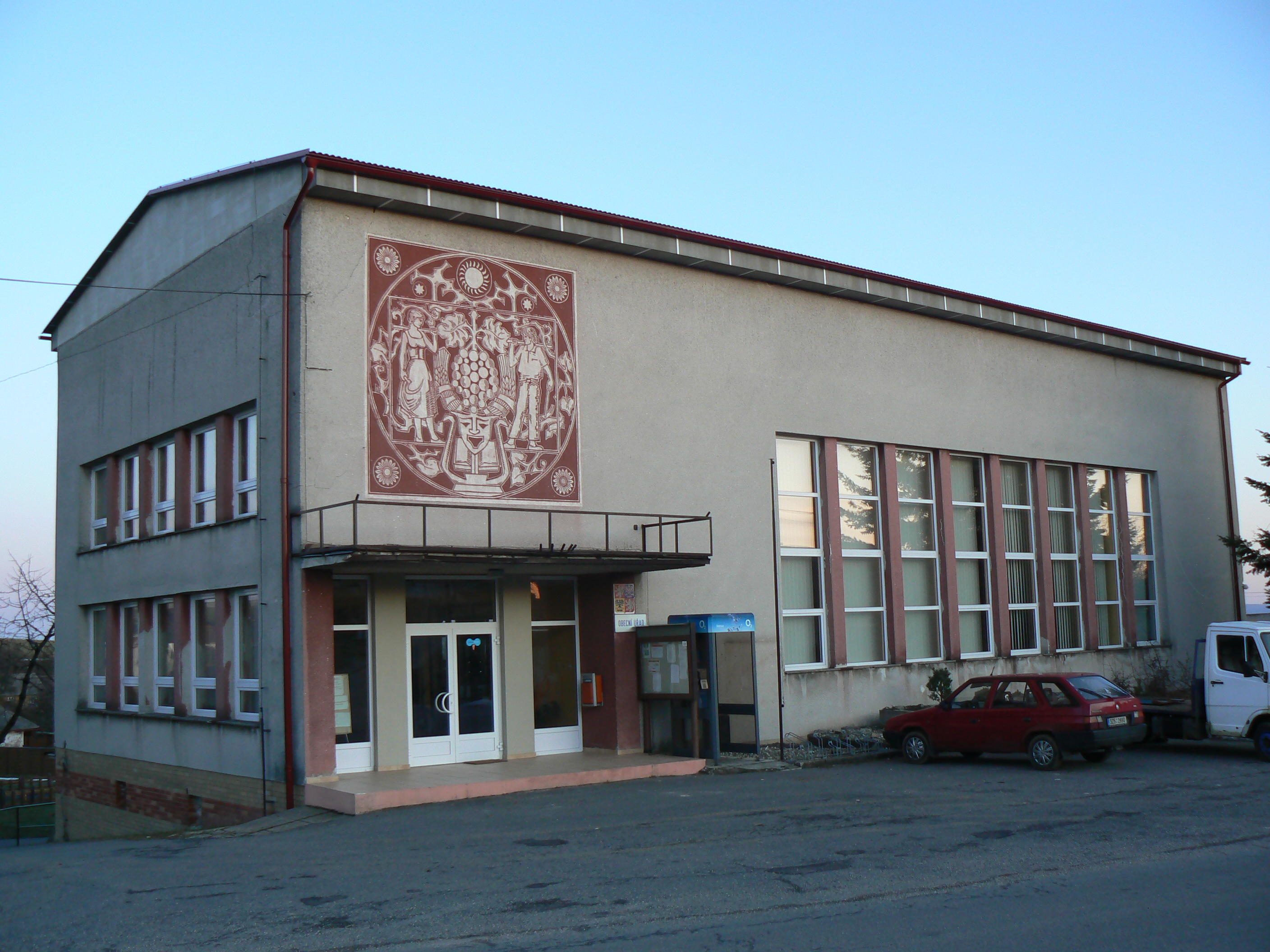 Česky: Újezdec, okres Uherské Hradiště - obecní úrad. This photograph was taken within the scope of the 'Czech Municipalities Photographs' grant. - OpenStreetMap(Info)